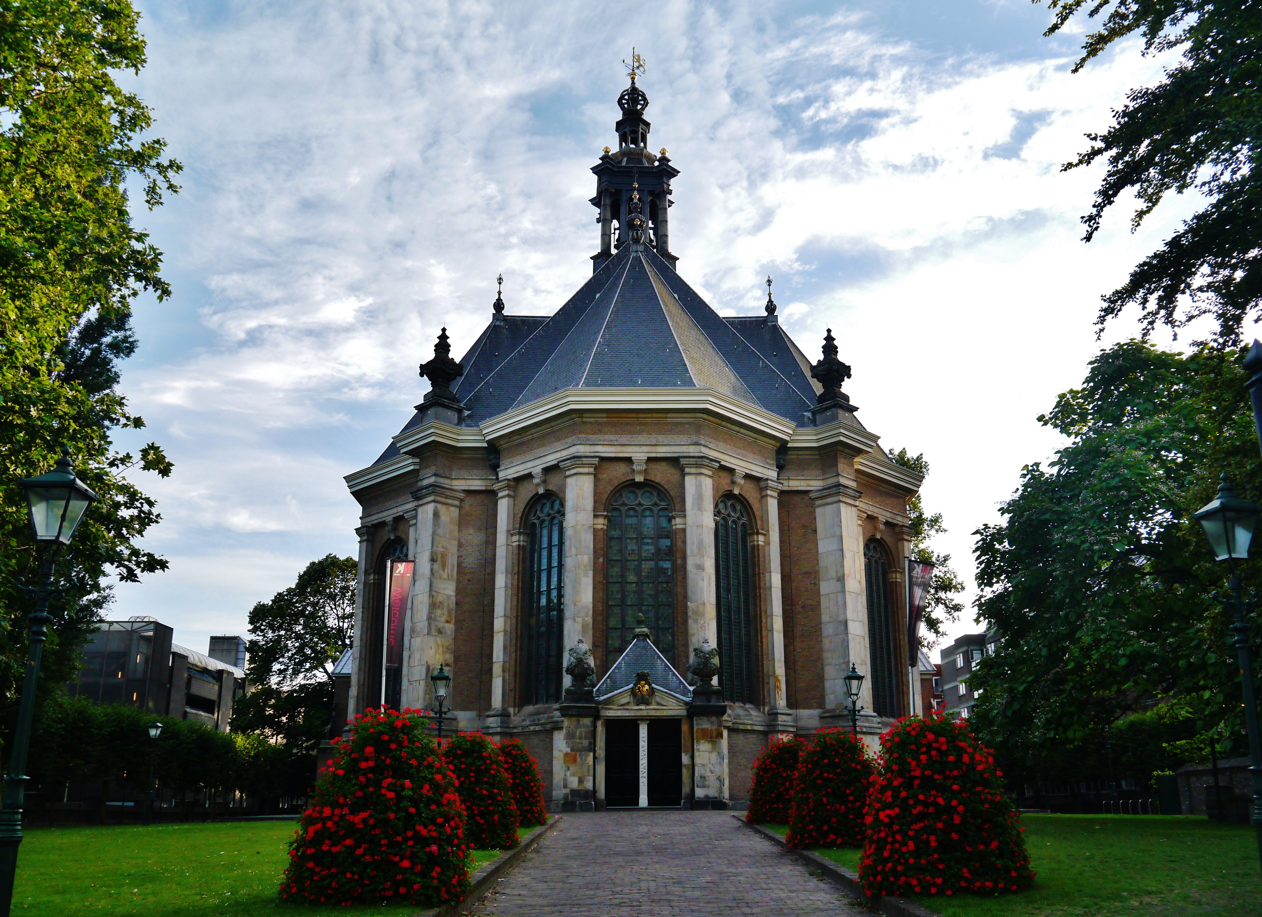 New Church, The Hague, Province of South Holland, Netherlands